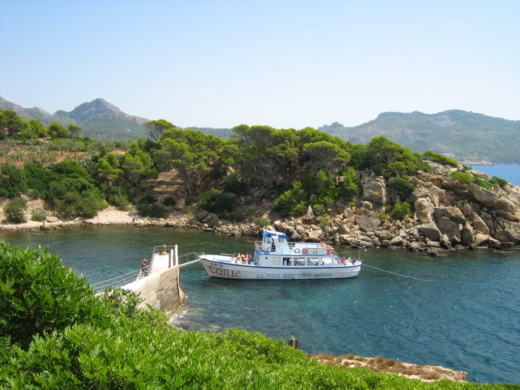 Spain, Mallorca, Isla Sa Dragonera: nature harbour «Cala Lladro» with glass bottom boat.